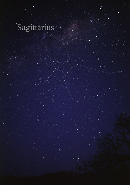 Photography of the constellation Sagittarius, the archer